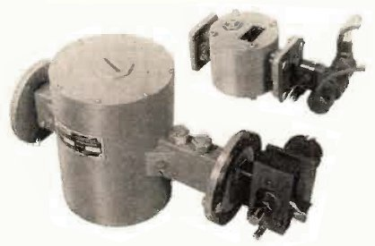 Two reflex klystrons attached by waveguide to microwave cavities, from an ad by Varian, Inc. in an electronics magazine. At top is the Varian VA-1281 cavity with the VA-201 klystron, at bottom is the VA-1282 cavity and X-26 klystron. The reflex klystron is an obsolete vacuum tube used around World War 2 to produce microwaves. The microwave cavities, consisting of closed cylindrical metal containers, serve as tuned circuits, determining the resonant frequency.of the oscillators. Cavity resonators are used instead of tuned circuits at microwave frequencies because the size of discrete inductors and capacitors required would be very small. They can have much higher Q_factor than LC circuits, approaching the frequency stability of quartz crystals.